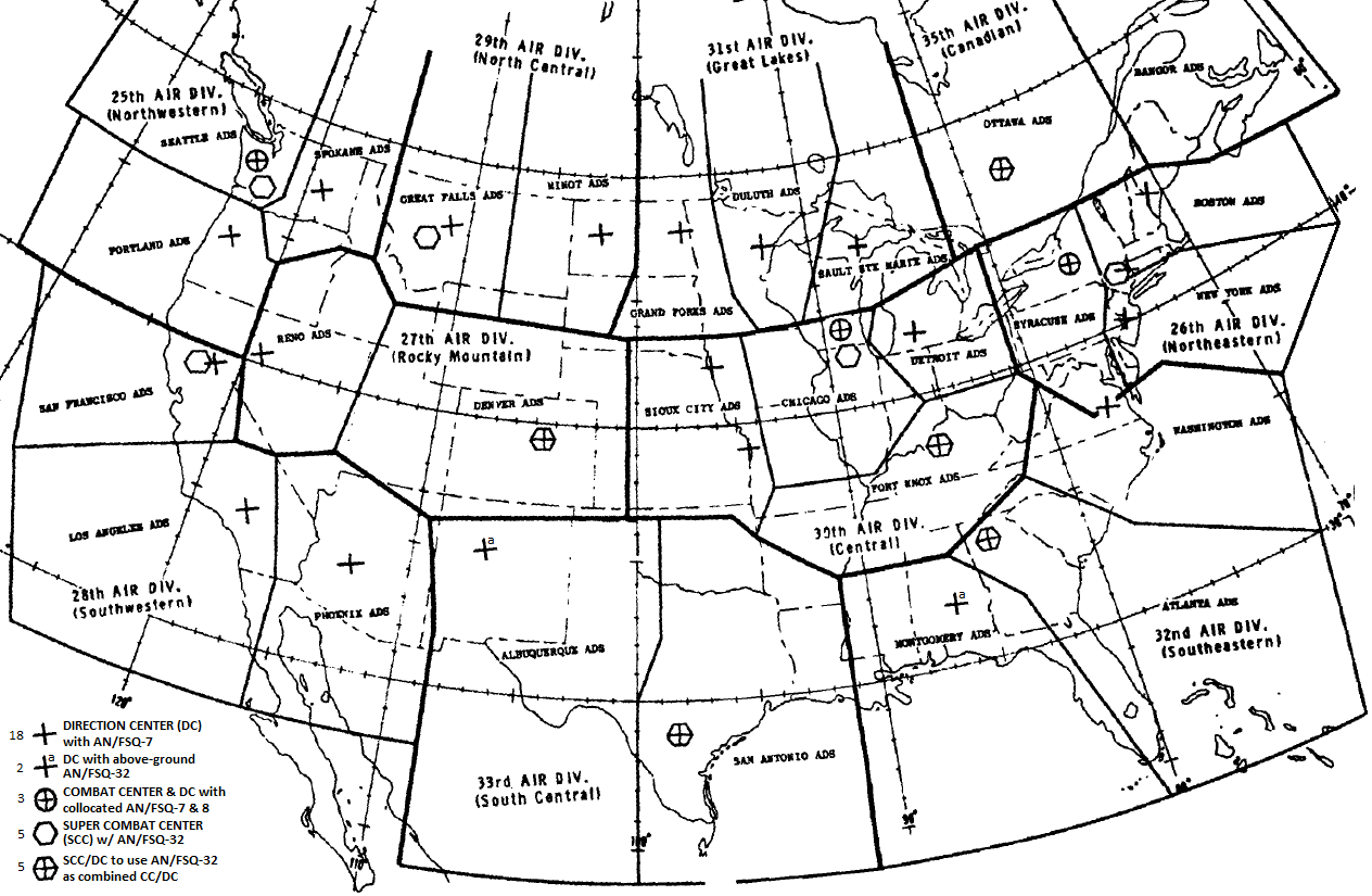 English-language version (English descriptions) with NORAD sectors